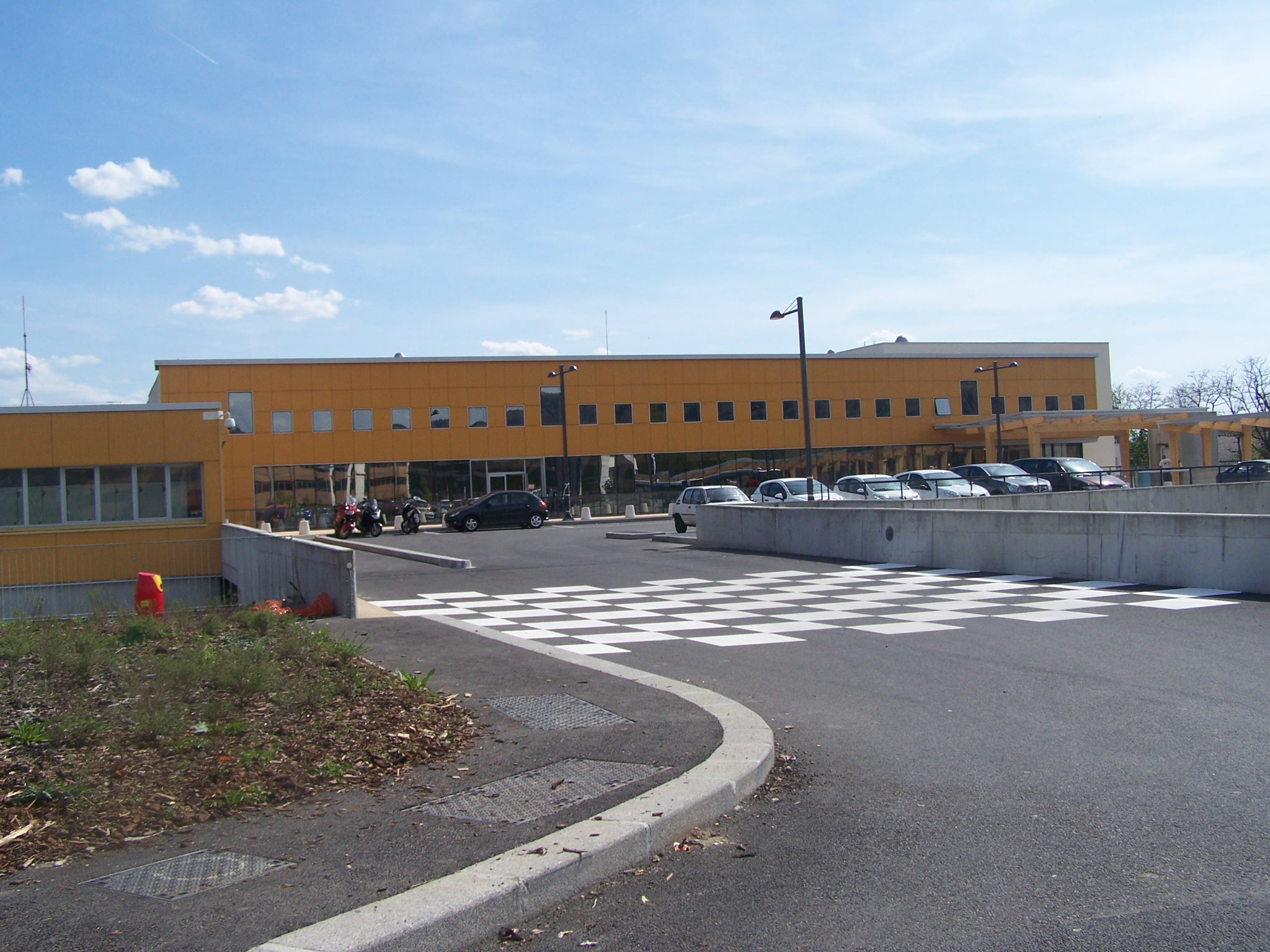 New Hospital of the region of Annecy in Haute-Savoie, France.